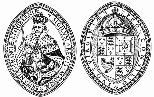 This was the seal of the Governor' Council in Colonial Virginia.